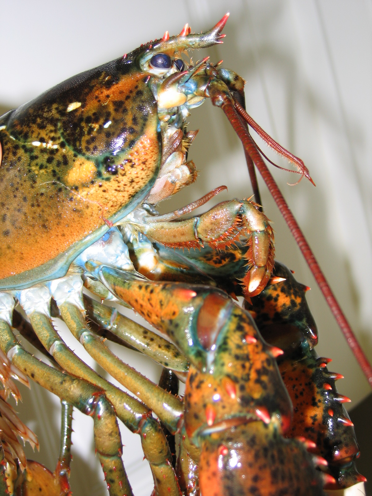 Lateral view of lobster shipped for consumption in the United States.